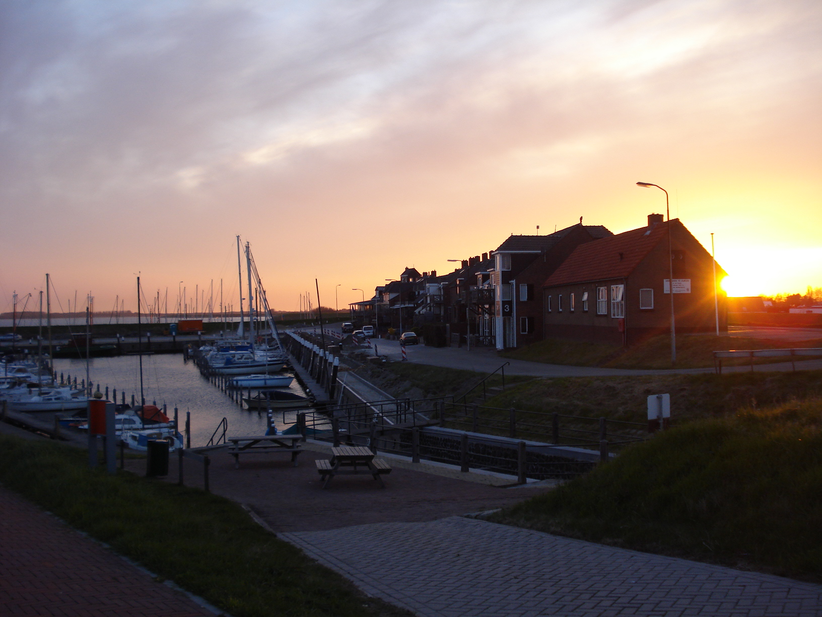 Ouddorp-harbour Zeêuws: Heavene van Ouwdurp